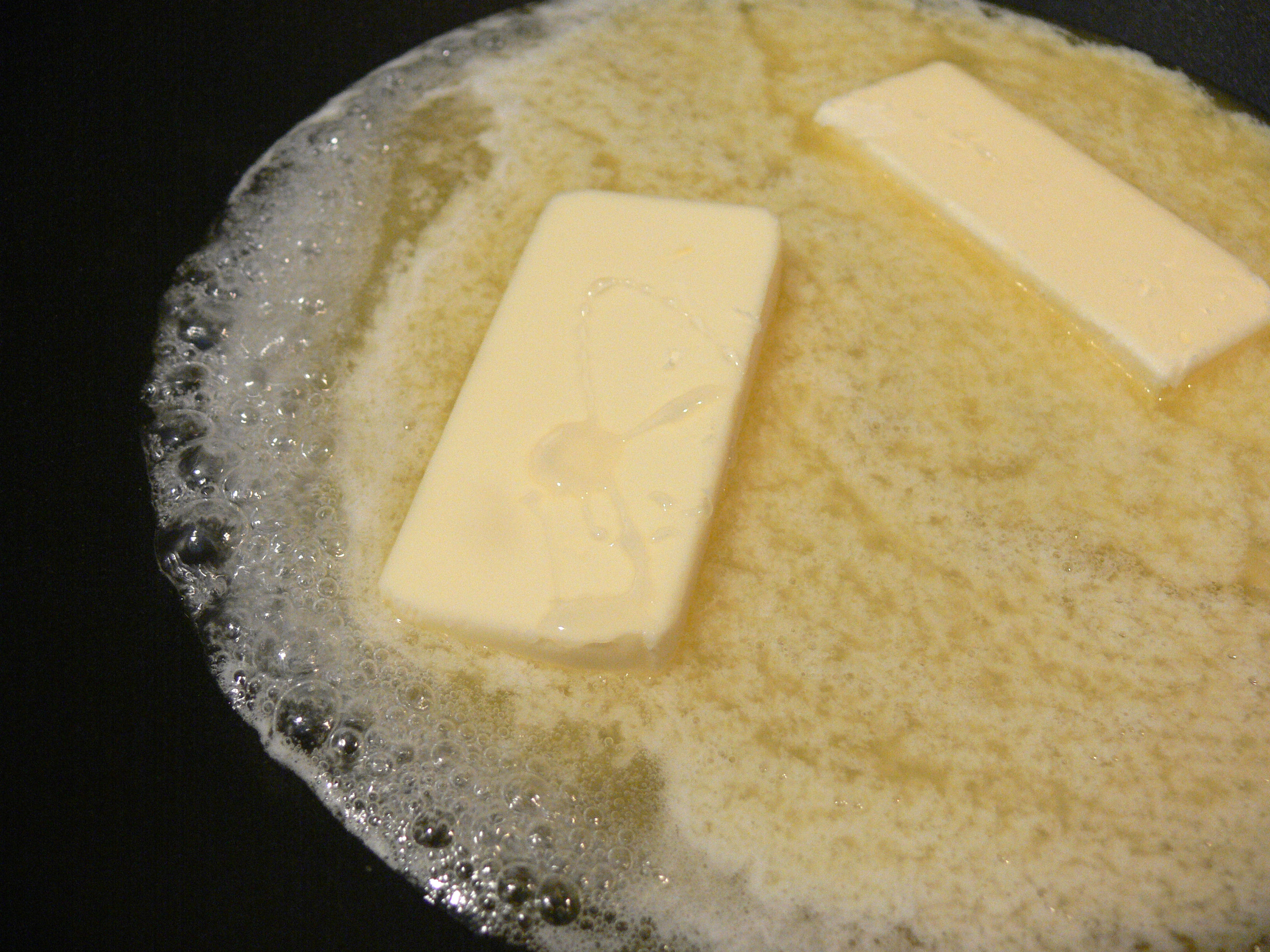 1/2 lb butter, 1 c sugar, 1/4 c water and 1 tb corn syrup melt together over medium heat.